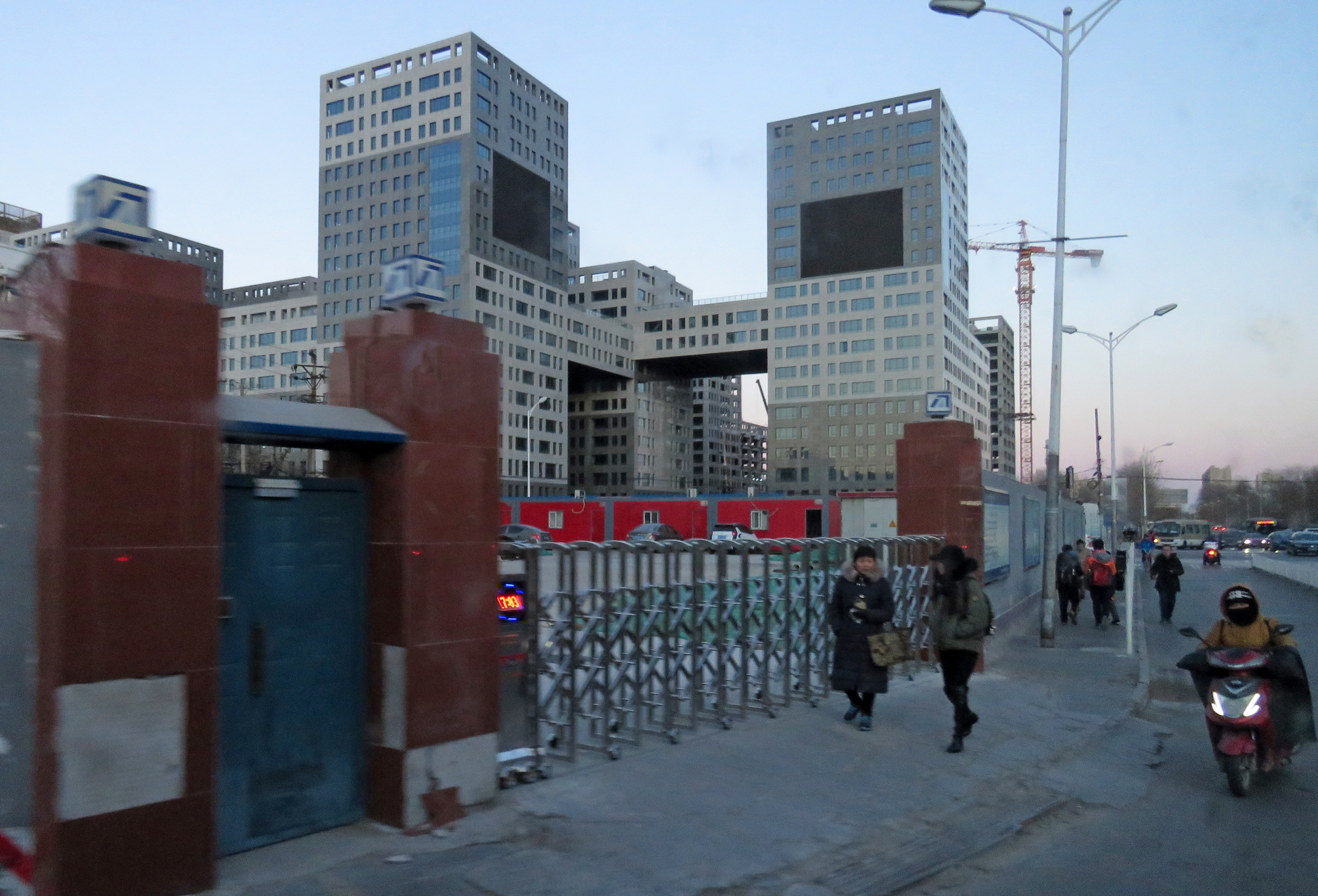 Taken from a 403 Special Service. Interchange station of L12 and L14.